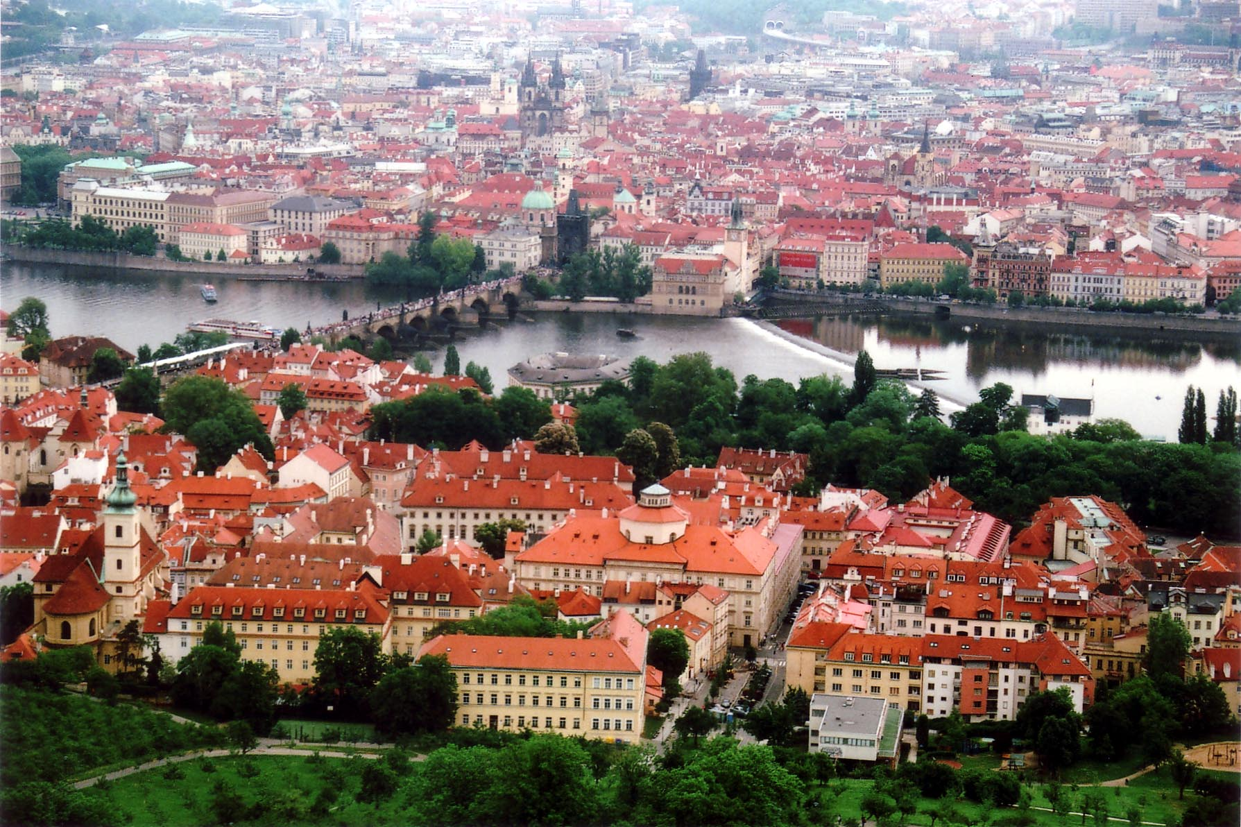 View over Prague Old Town, Czech Republic